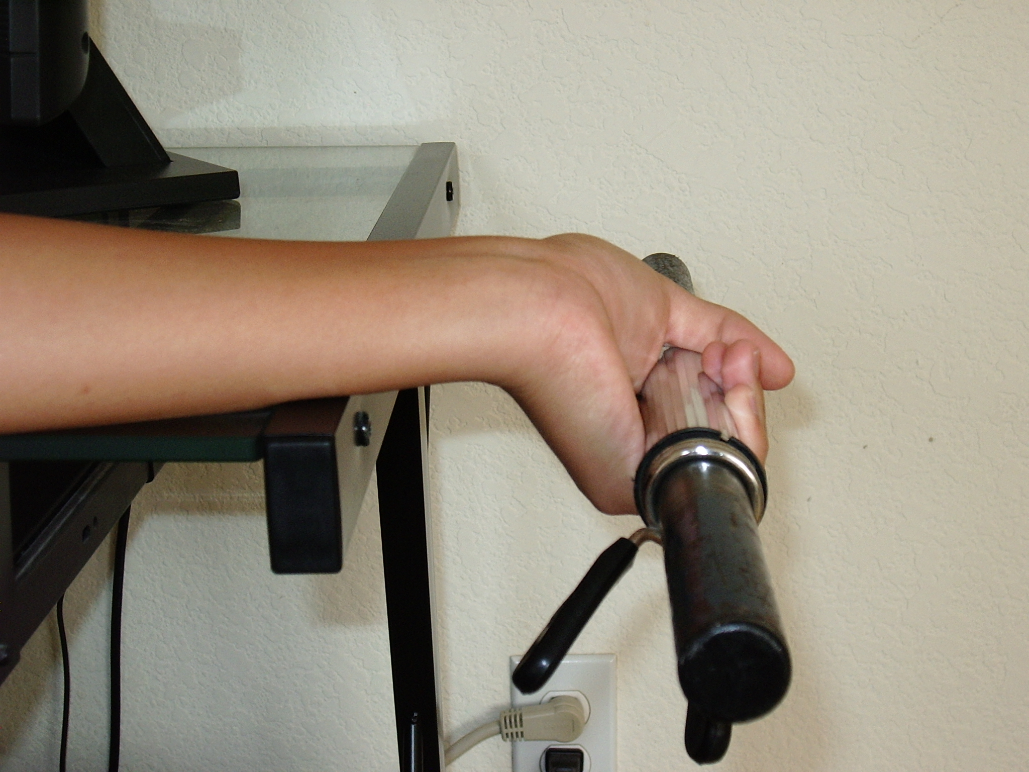 Wrist curls to strengthen the UCL